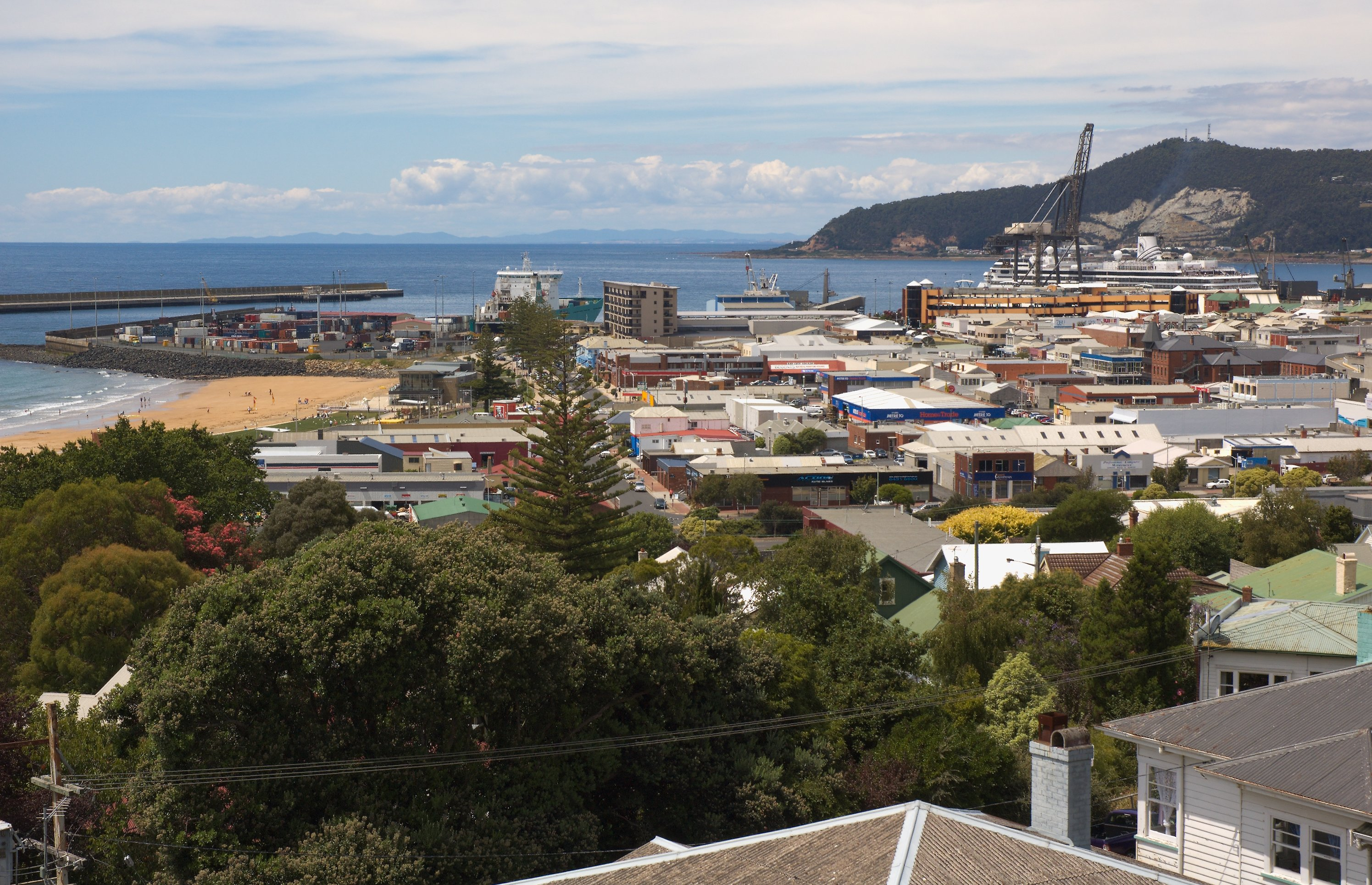 Burnie city centre, beach, and Round Hill, with cruise ship Volendam in port. The other ship on the left is Victorian Reliance.